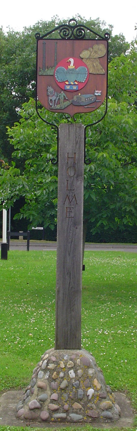 Signpost in Holme